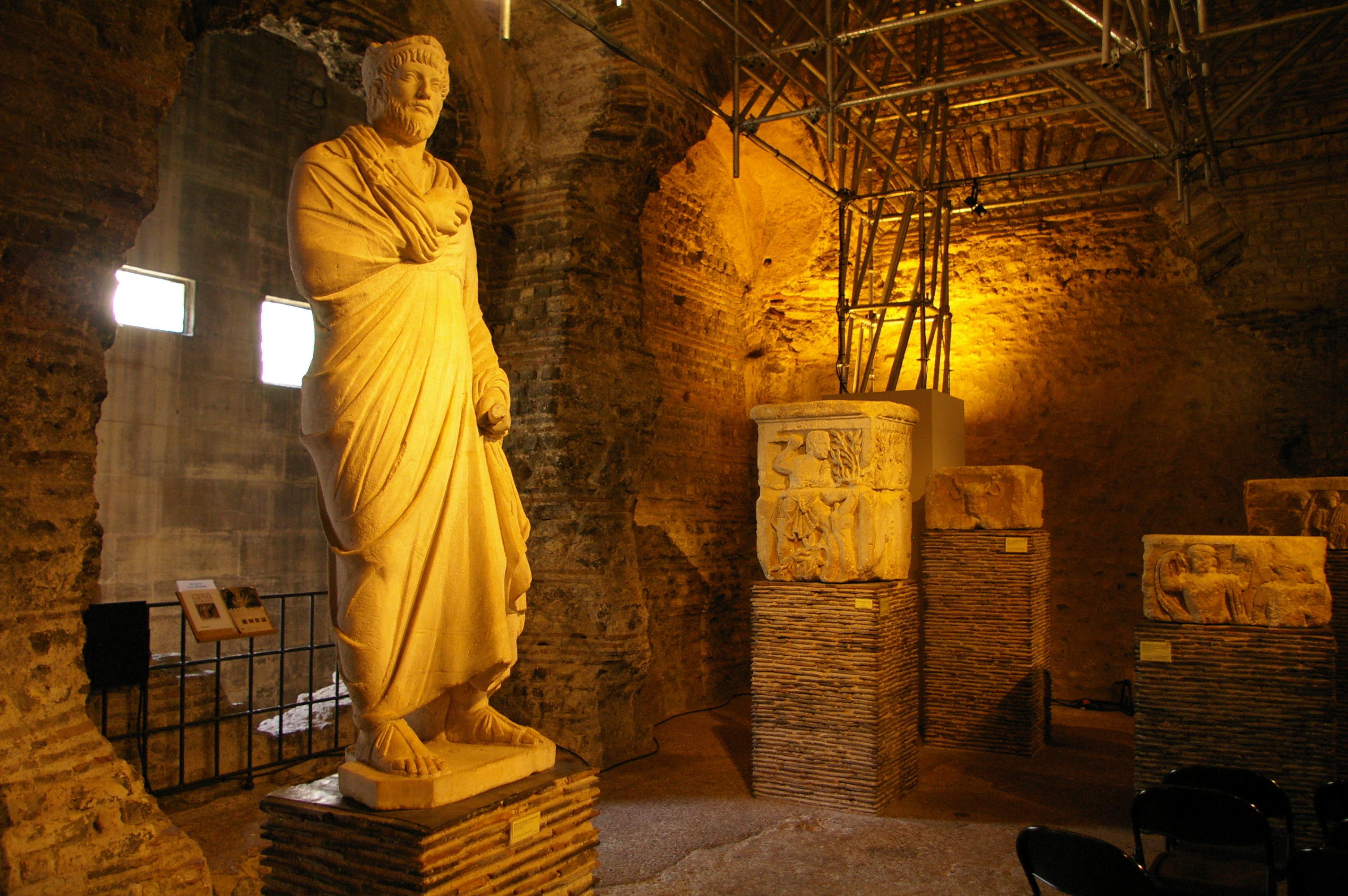 View of a Roman bath beneath the Latin Quarter of Paris